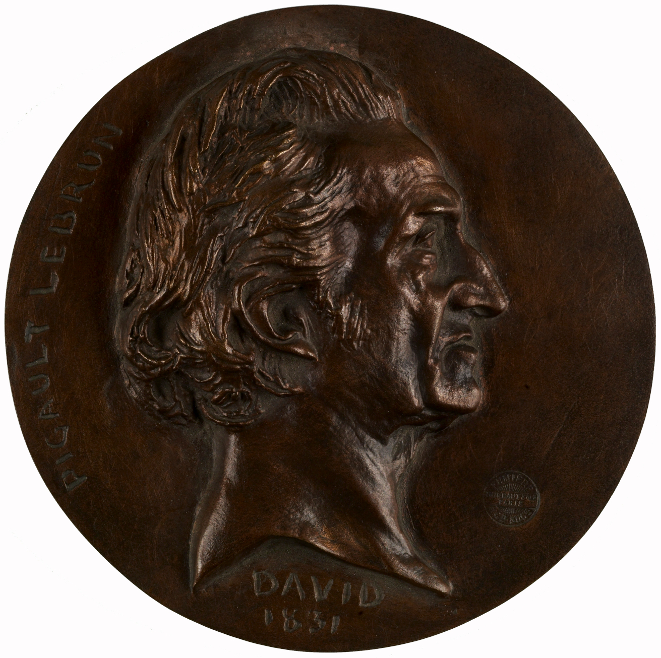 Charles-Antoine-Guillaume Pigault de l'Espinoy (known as Pigault-Lebrun), French novelist, was born in Calais in 1753. He had a stormy youth, but finding his true vocation, he wrote more than twenty plays and a number of novels, the most celebrated of which is "L'Enfant du carnaval." He died in La Celle-Saint-Cloud in 1835.